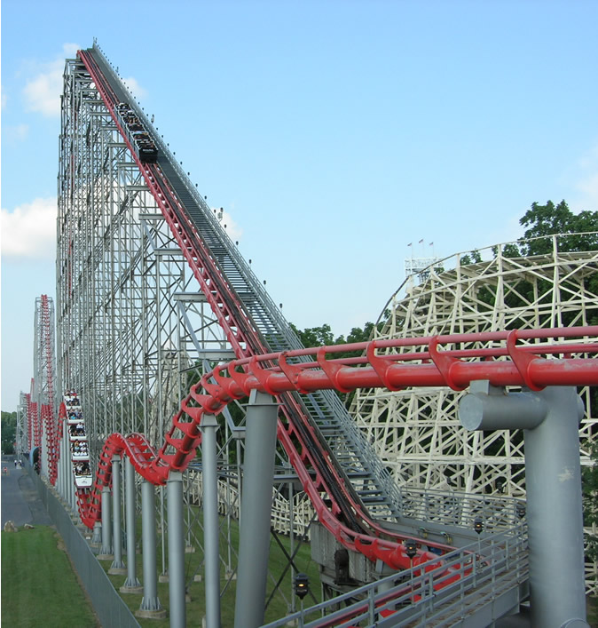 Steel Force at Dorney Park in Allentown, PA.